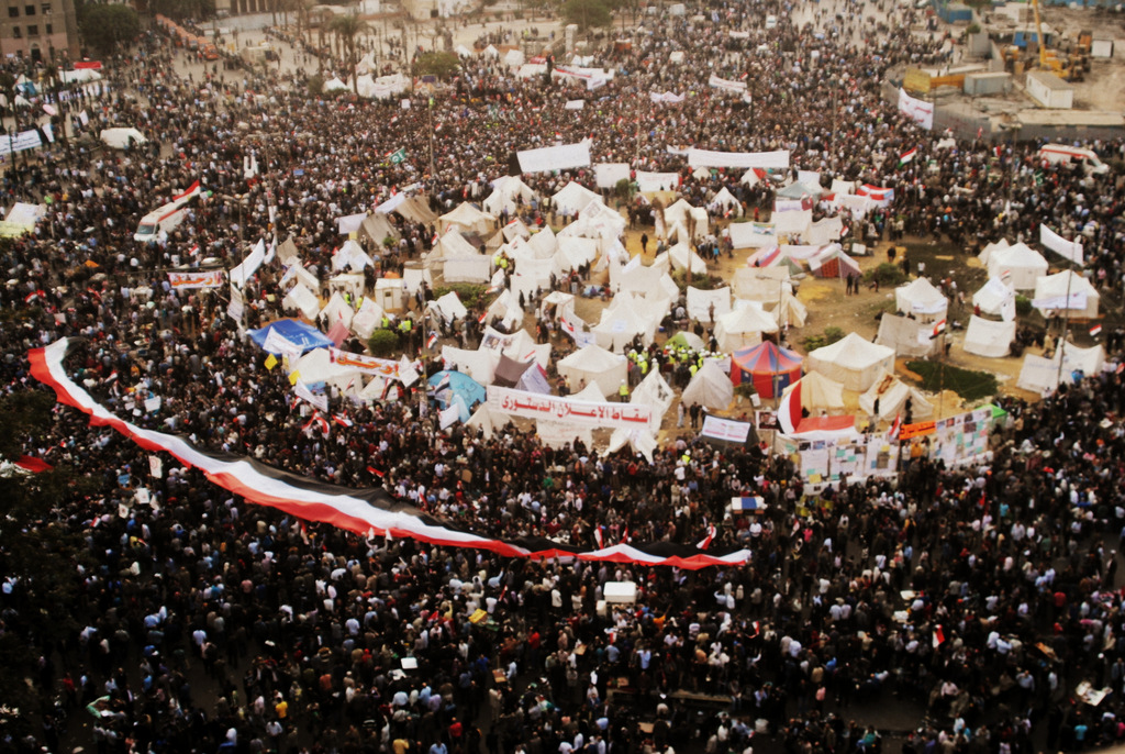 Tahrir Square on November 27th against Morsi